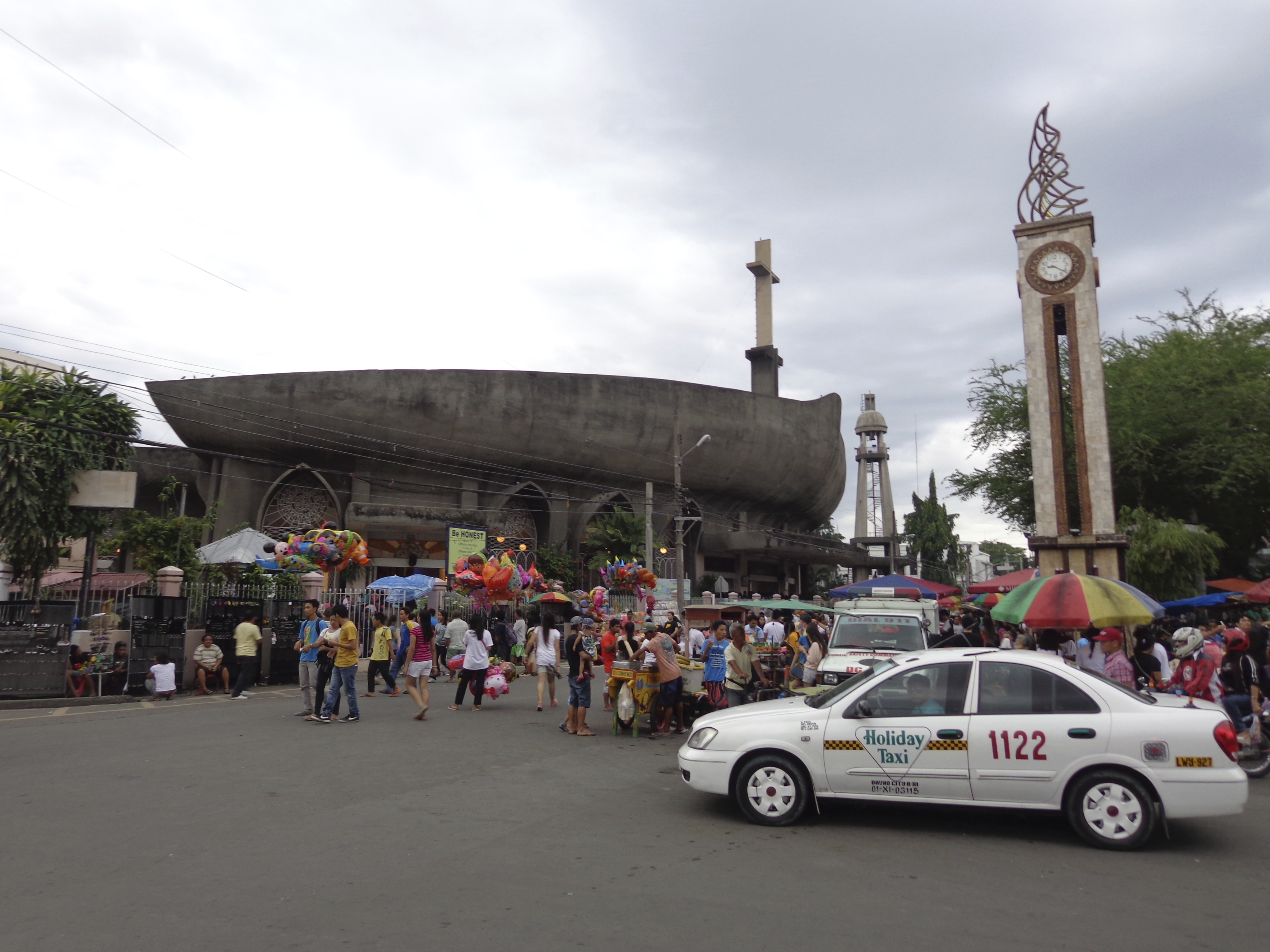 Front of San Pedro Cathedral Davao City